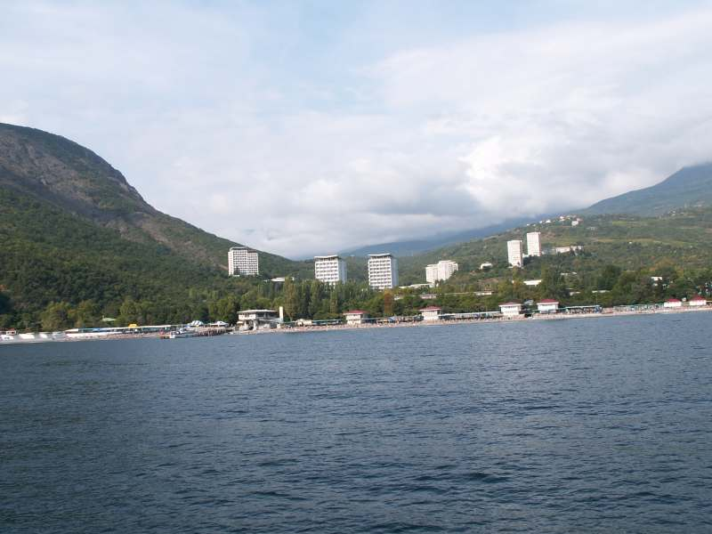 Parthenit resort in Crimea. Photo by Al Silonov